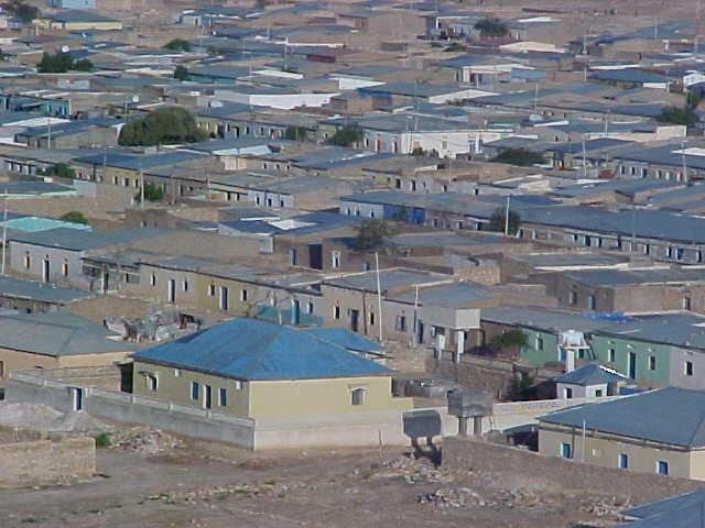 Badhan Over-view